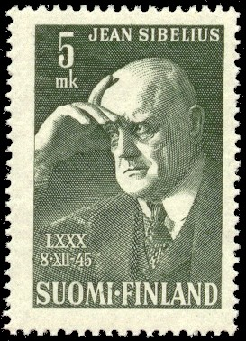 Postage stamp depicting the Finnish composer Jean Sibelius